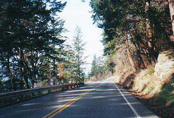 Trees form a canopy over Washington State Route 11 south of Bellingham. Taken by me in 2000 and released to the public domain in 2005. This is a retouched picture, which means that it has been digitally altered from its original version. Modifications: Reduced red sun flare patch. Modifications made by Fallschirmjäger.